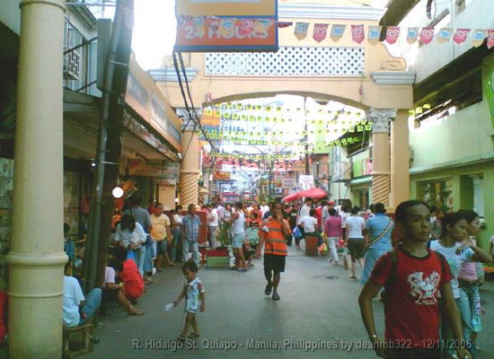 Entrance into R. Hidalgo street taken by Dean M. Bernardo on 10 November 2006 for public domain use for Wikipedia